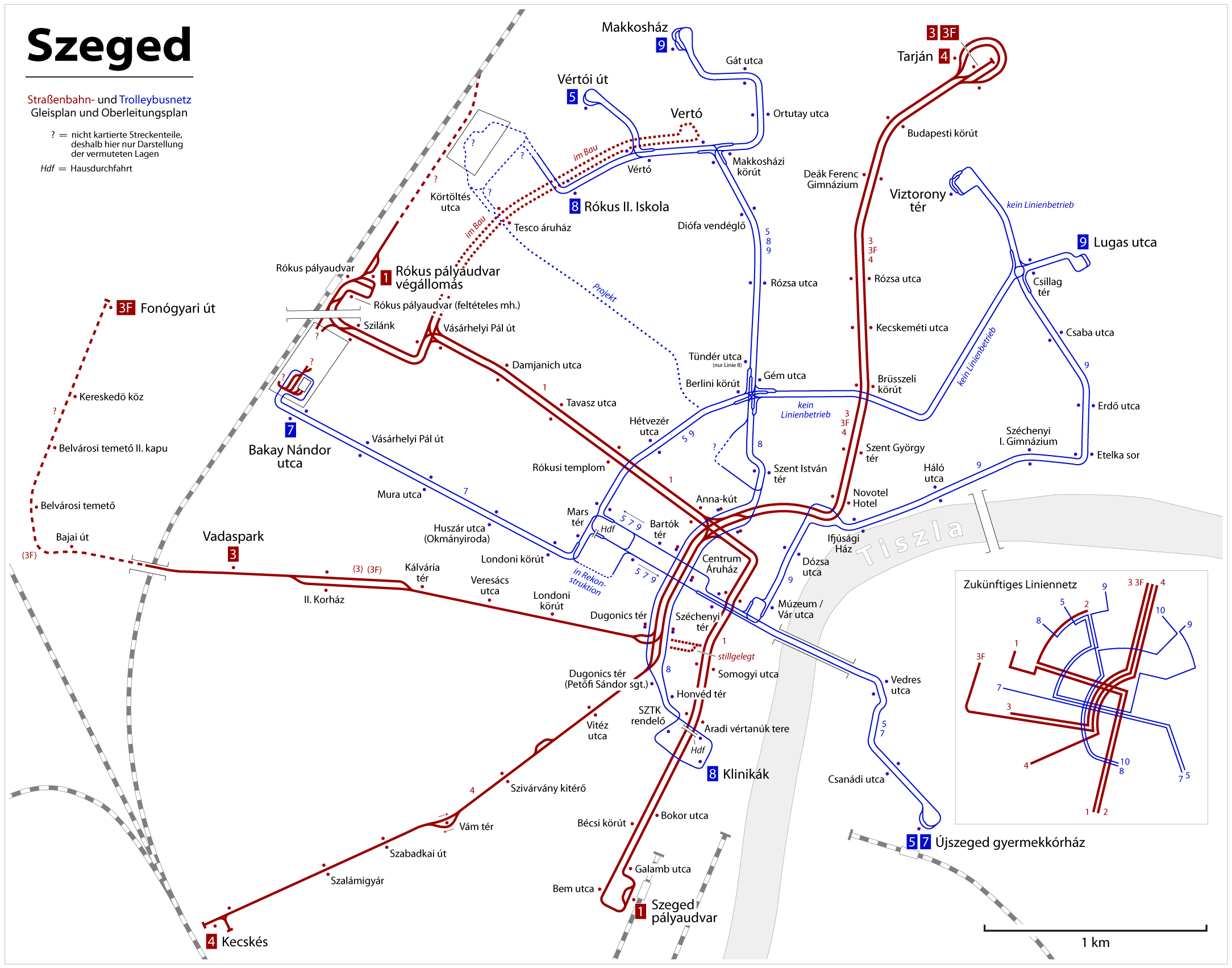 Map of the tramway and trolleybus lines of Szeged (track map / wire map)